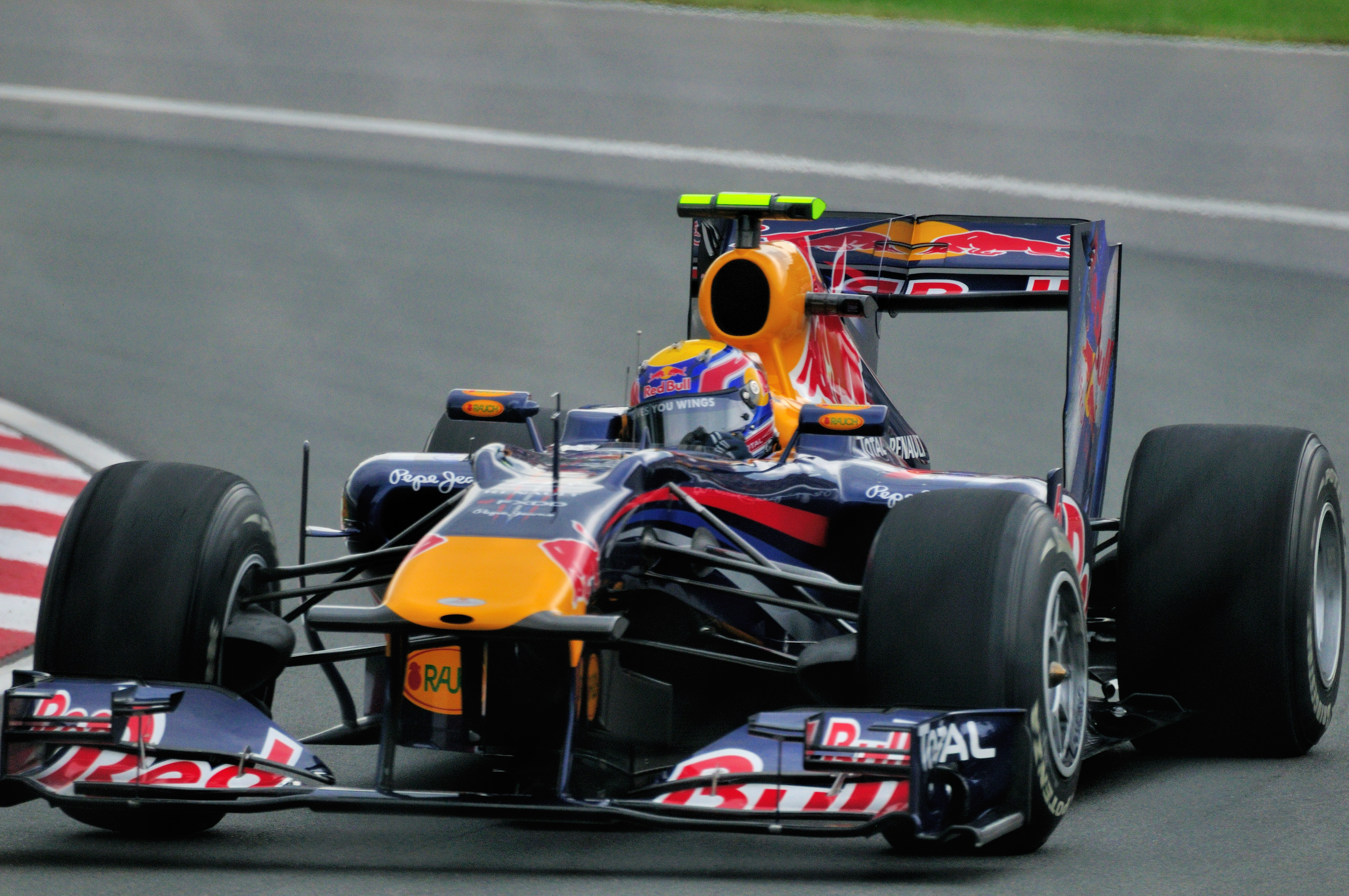 Red Bull Racing driver Mark Webber of Australia in the Senna corner (2010 Canada GP)